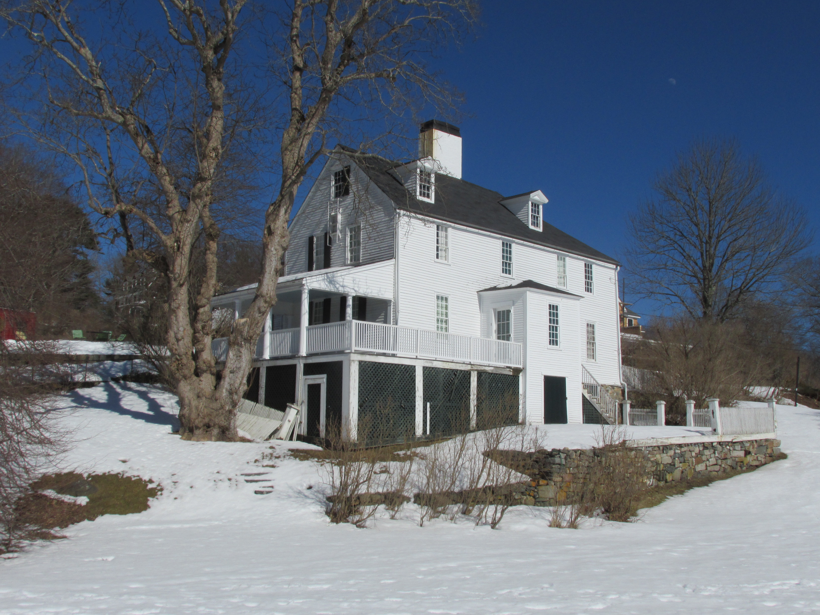 Sayward Wheeler House, York Harbor Maine - 2014